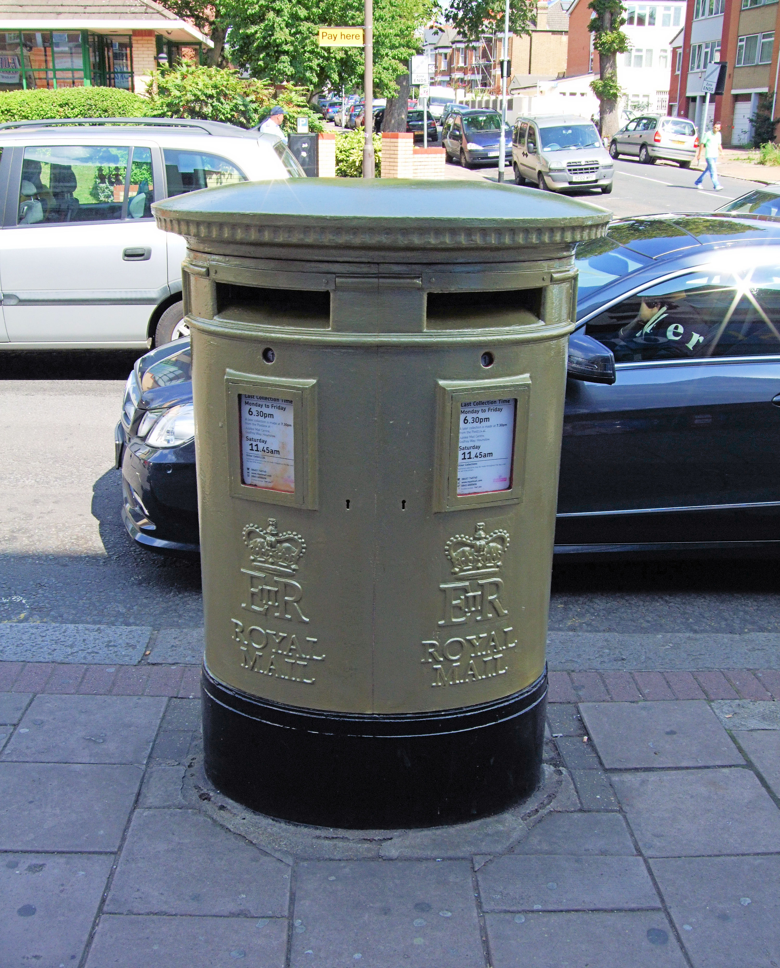 The Golden Letterbox On London Road, Isleworth In Honour of Olympic Champion Mo Farah. To mark Mo Farah's gold medal winning performance (10,000m), Royal Mail painted a post box outside Isleworth Post Office gold.